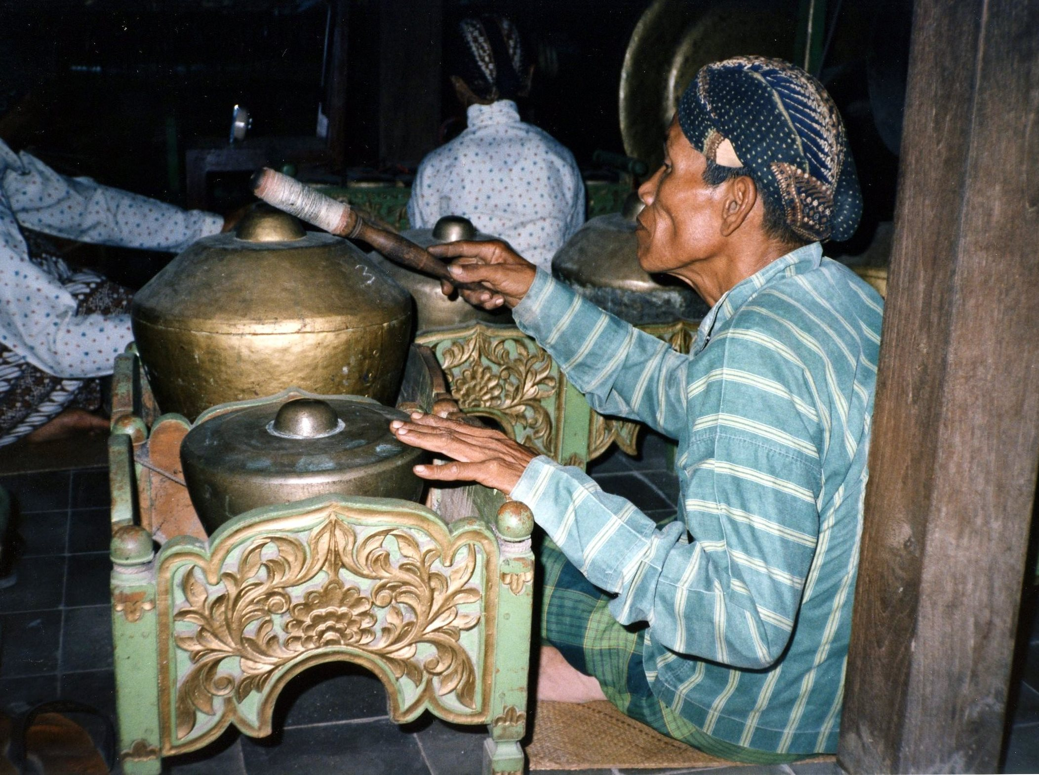 Gamelan player, Yogyakarta, Java, Indonesia